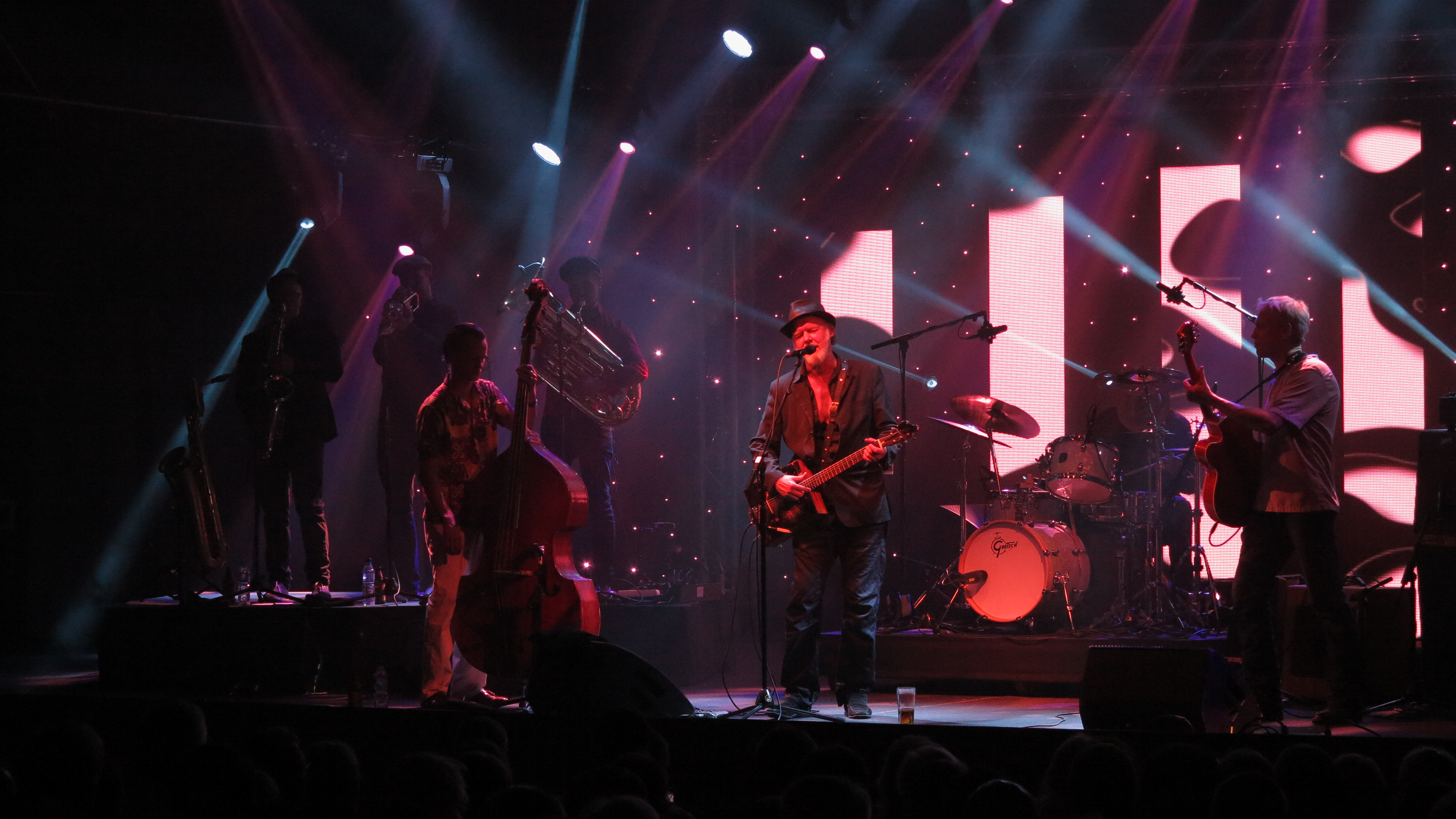 Tuomari Nurmio performing during the 2014 Helsinki Festival under the name Dumari & Spuget & Blosarit.